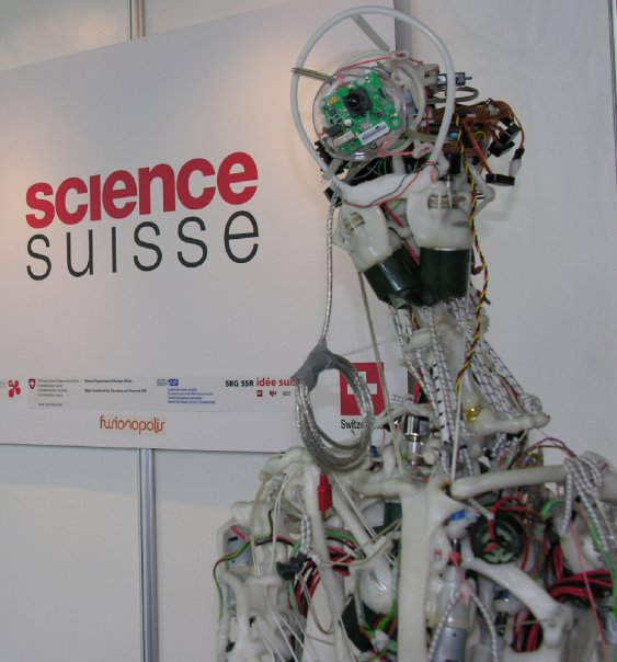 Cronos, the humanoid Robot of the Artficial Intelligence laboratory of the university of Zurich.